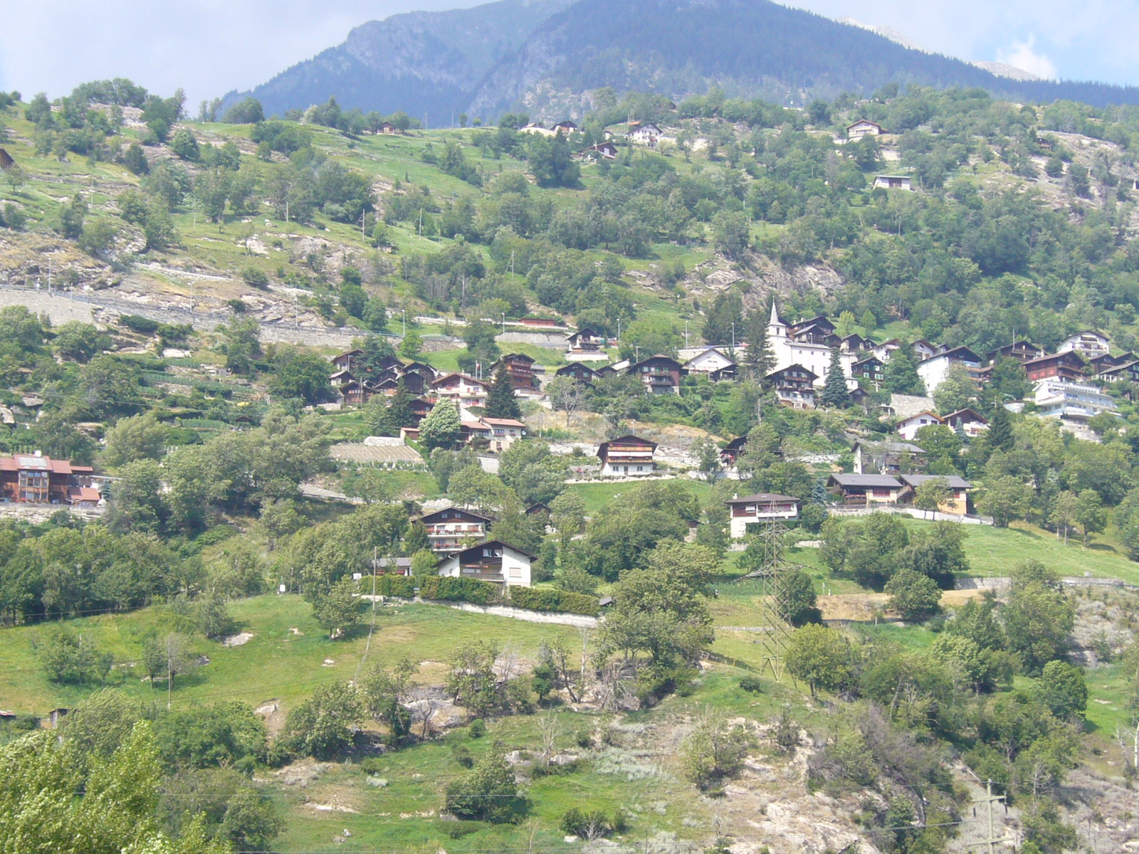 Eggerberg. Village in the Canton of Vallais, Switzerland. Picture taken by Peter Berger, July 16, 2006.